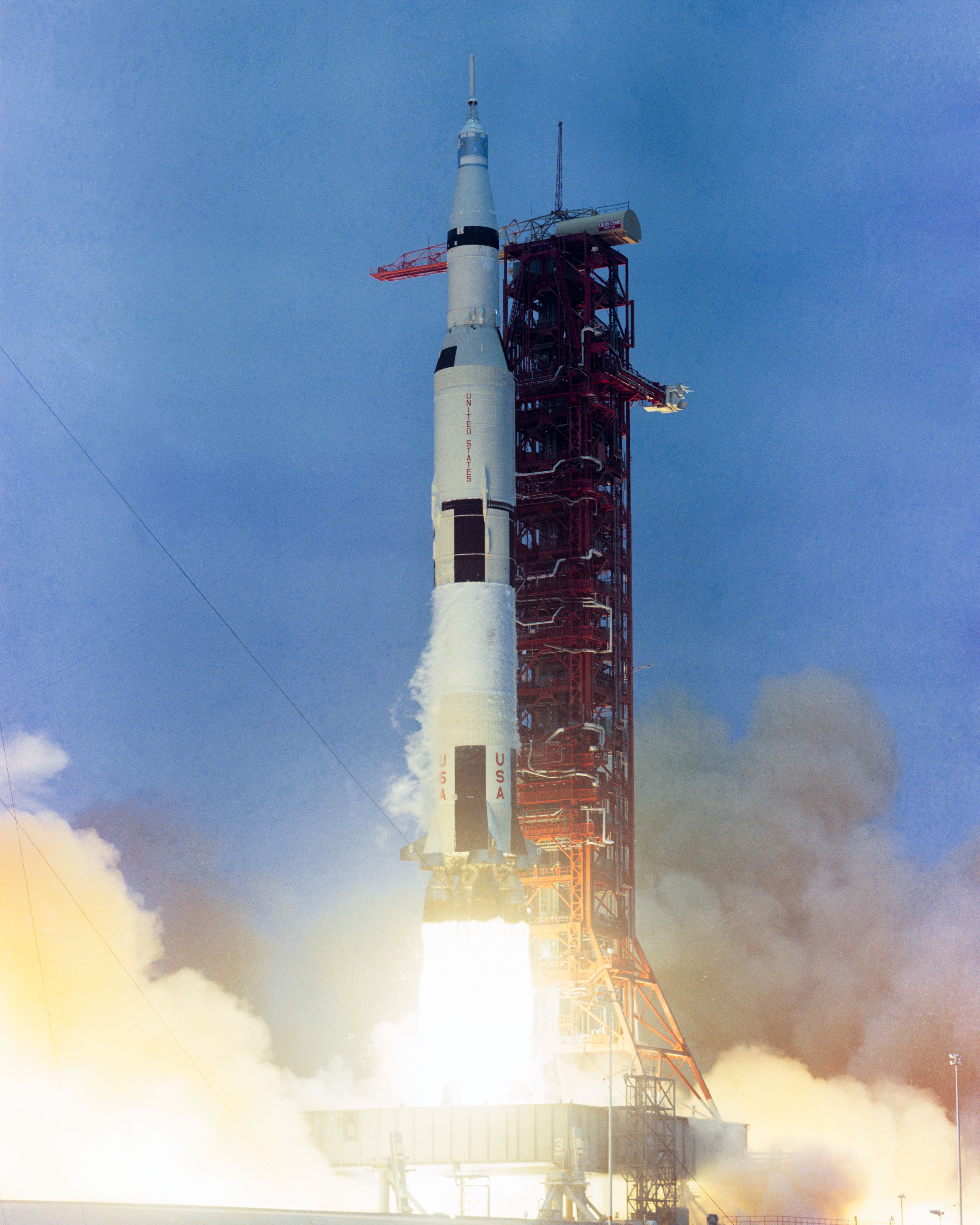 S69-34144 (18 May 1969) - The Apollo 10 (Spacecraft 106/Lunar Module 4/Saturn 505) space vehicle is launched from Pad B, Launch Complex 39, Kennedy Space Center, Florida at 12:49 p.m., May 18, 1969. Aboard the spacecraft are astronauts Thomas P. Stafford, commander; John W. Young, command module pilot; and Eugene A. Cernan, lunar module pilot. The eight-day, lunar orbit mission will mark the first time the complete Apollo spacecraft has operated around the moon and the second manned flight for the Lunar Module (LM). Two Apollo 10 astronauts, Stafford and Cernan, are scheduled to descend to within eight nautical miles of the moon's surface in the LM.